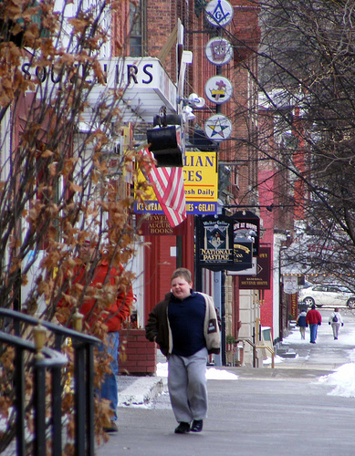 Cooperstown, NY